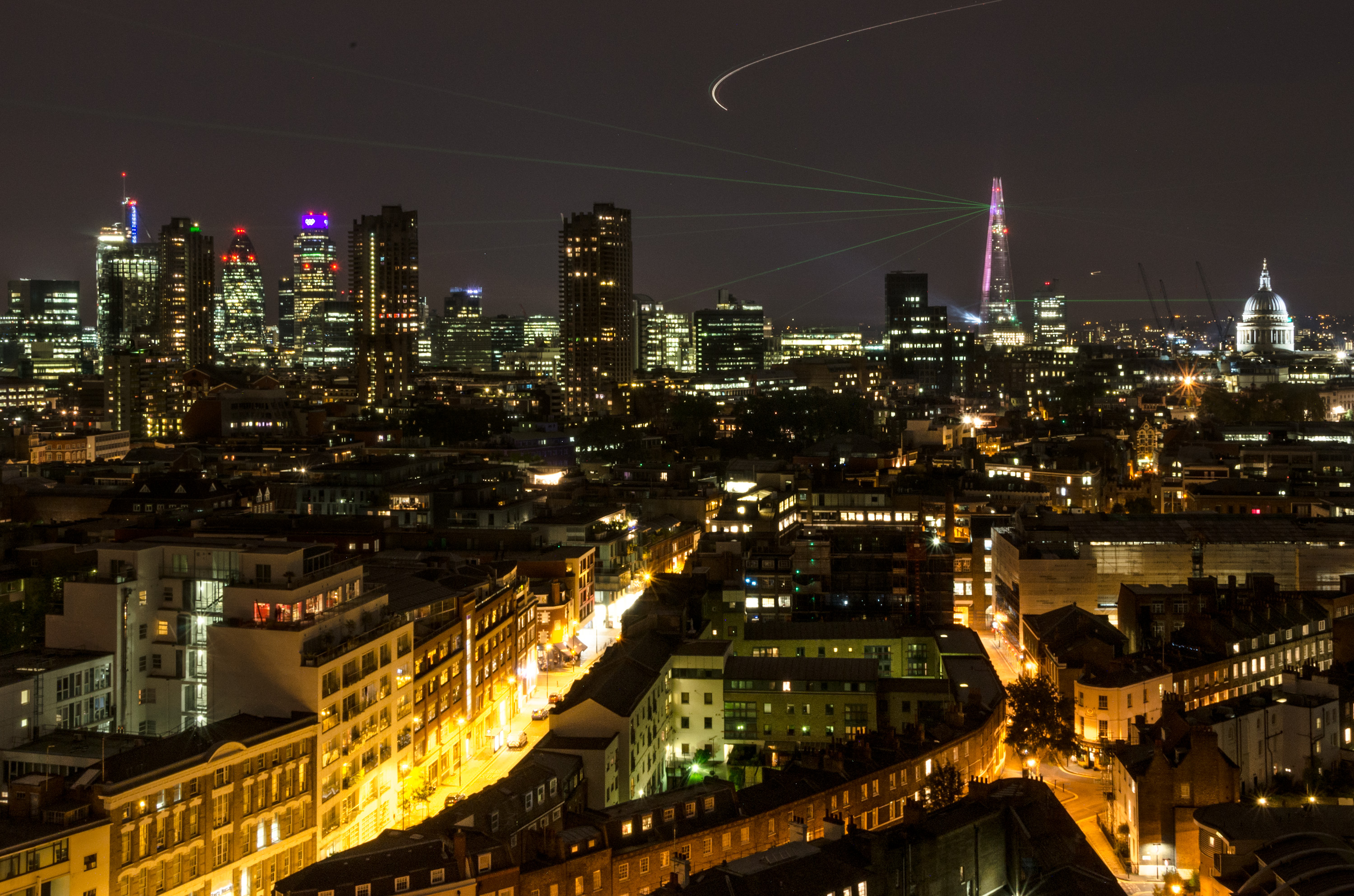 Panorama of City of London during The Shard’s opening laser show